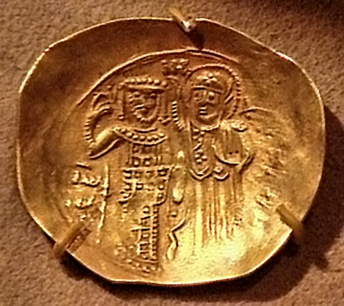 Coin of John III Vatatzes, Gold Hyperpyron, Magnesia